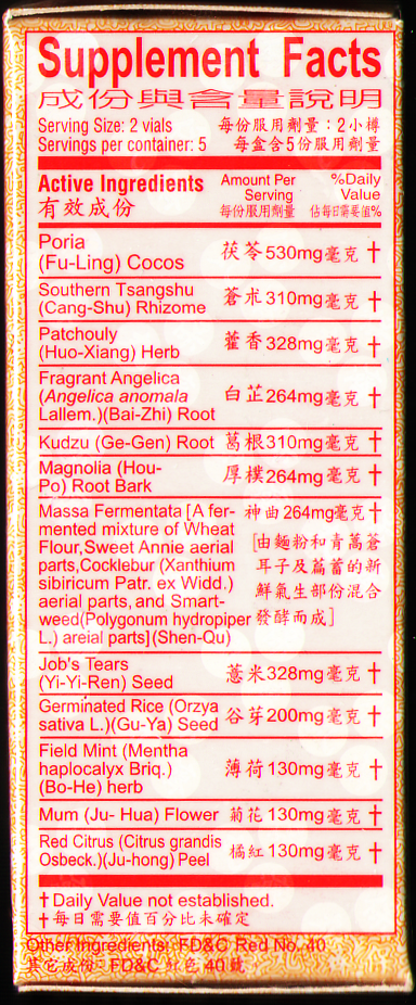 This is a direct scan from a box containing Po Chai pills purchased from a Chinese supermarket in Flushing, NY.